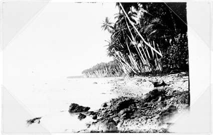 Aua Island